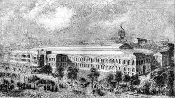 Palais d'Industrie, Paris World's Fair 1855 Image source. Retrieved 2 Aug 2013. Archived from the original on 22 Aug 2012.